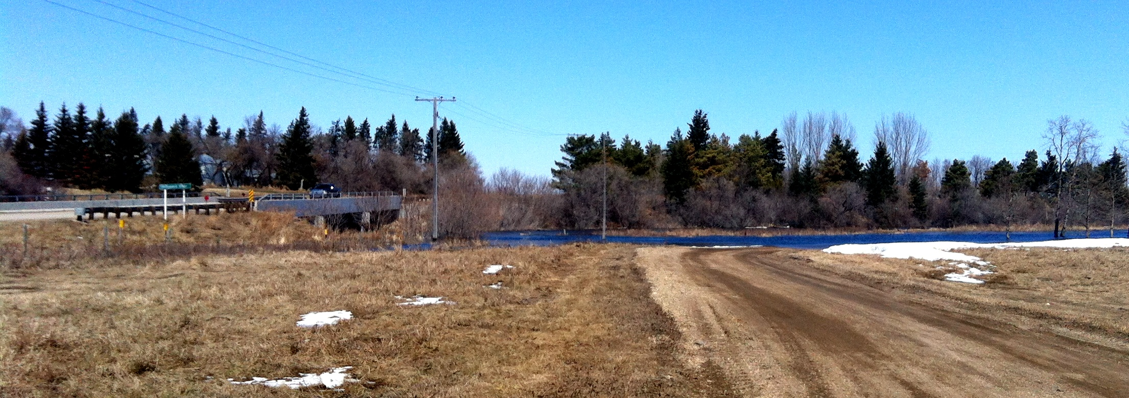 Spring 2013 showing the Whitesand River overflowing and nearly over topping the bridge on Highway 9 south of Canora, Saskatchewan.